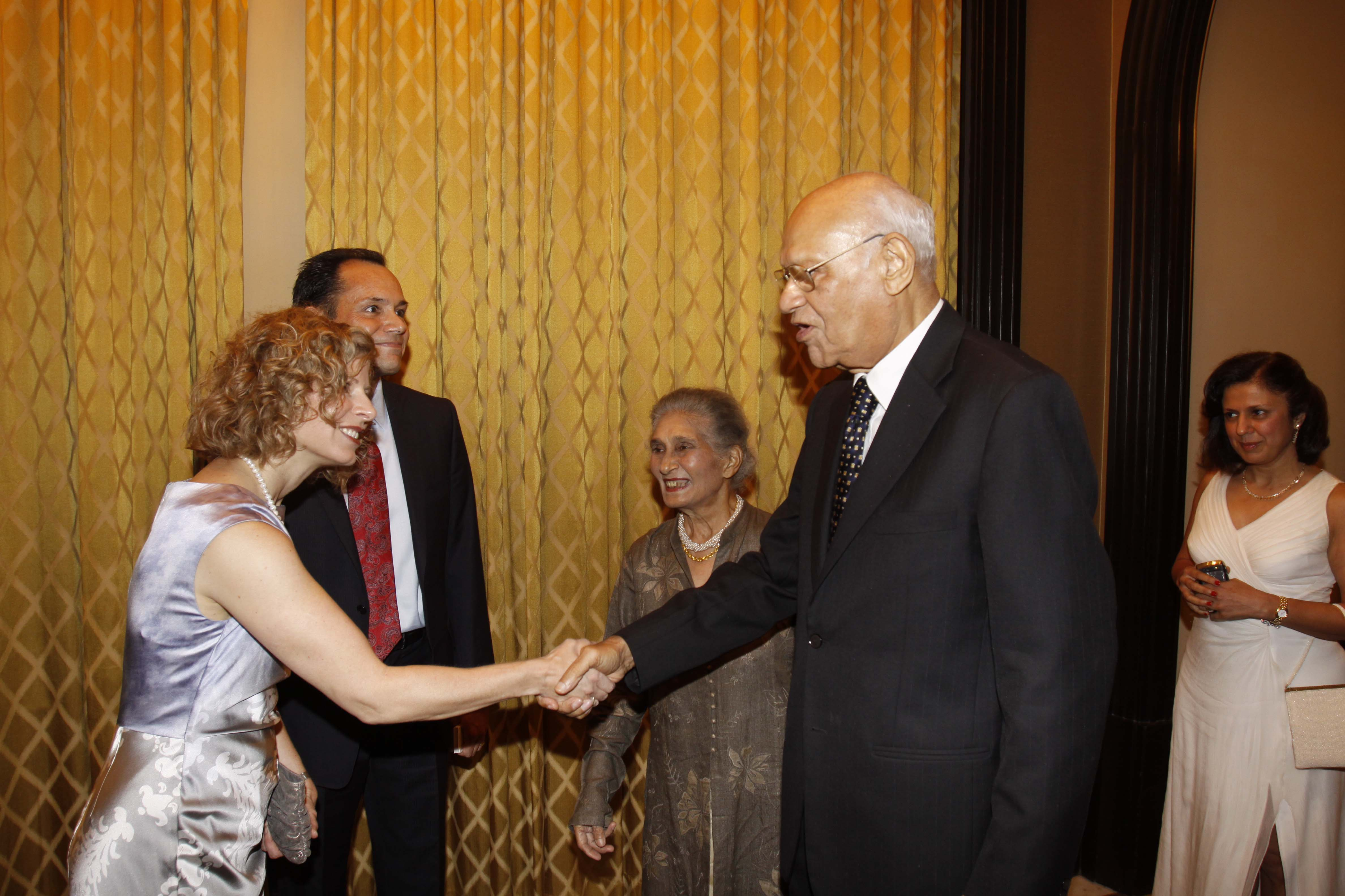 U.S. Consul General in Mumbai, Peter Haas, welcomes former Indian police officer Julio Ribeiro at the U.S. National Day Celebrations organised by the U.S. Consulate of Mumbai at Taj Mahal Palace Hotel in Mumbai.